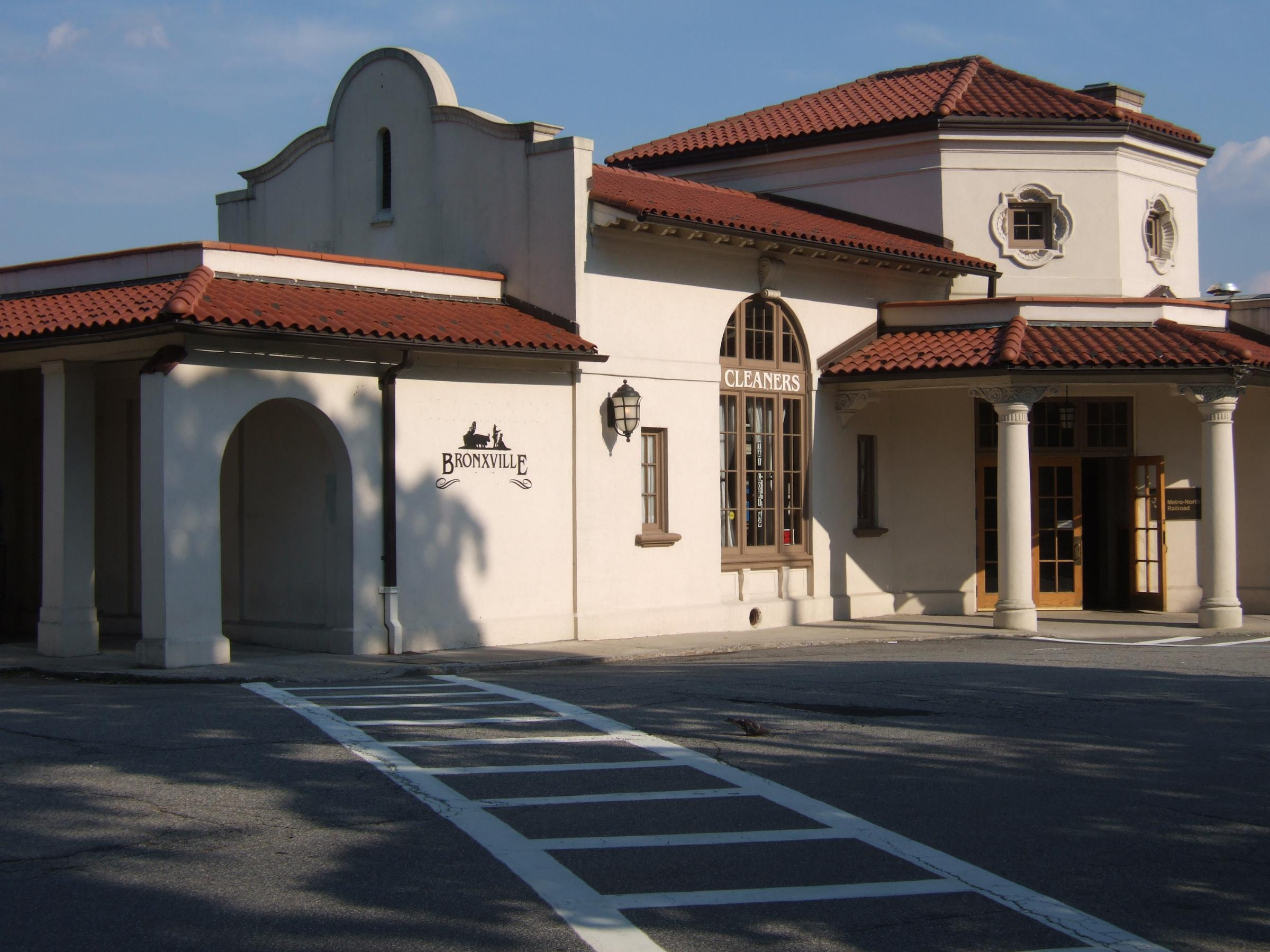 The Bronxville Metro-North Railroad station. Photo taken July 2006.